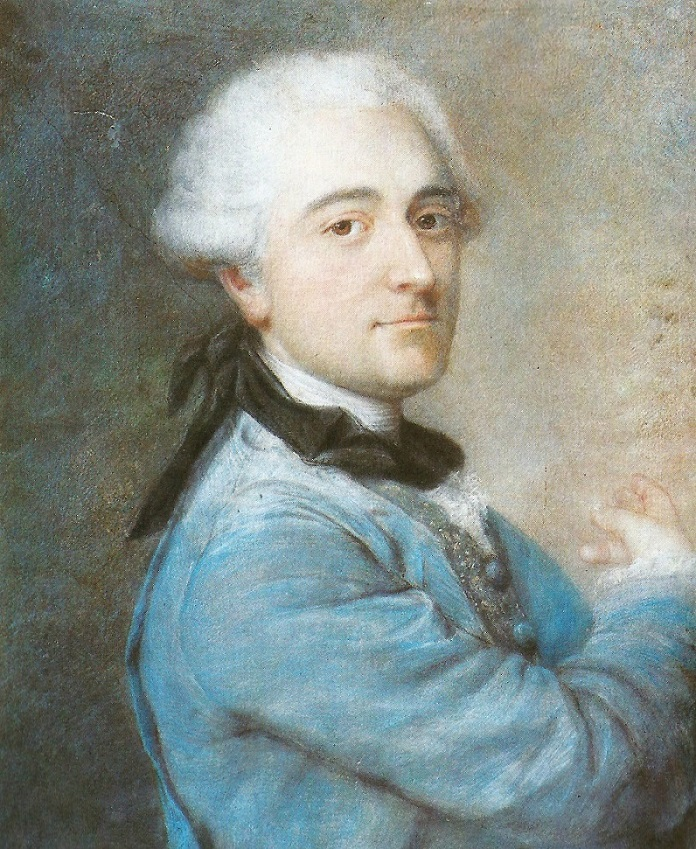 Portrait of Stanisław August Poniatowski (1732-1798)